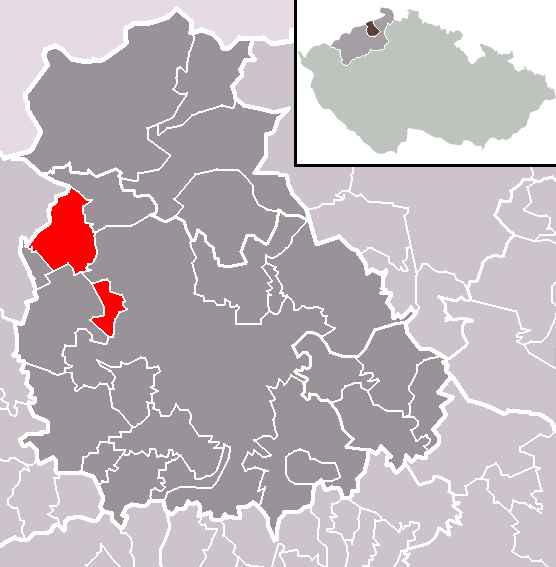 Location of Chlumec municipality within Ústí nad Labem District and administrative area of Ústí nad Labem as a Municipality with Extended Competence.